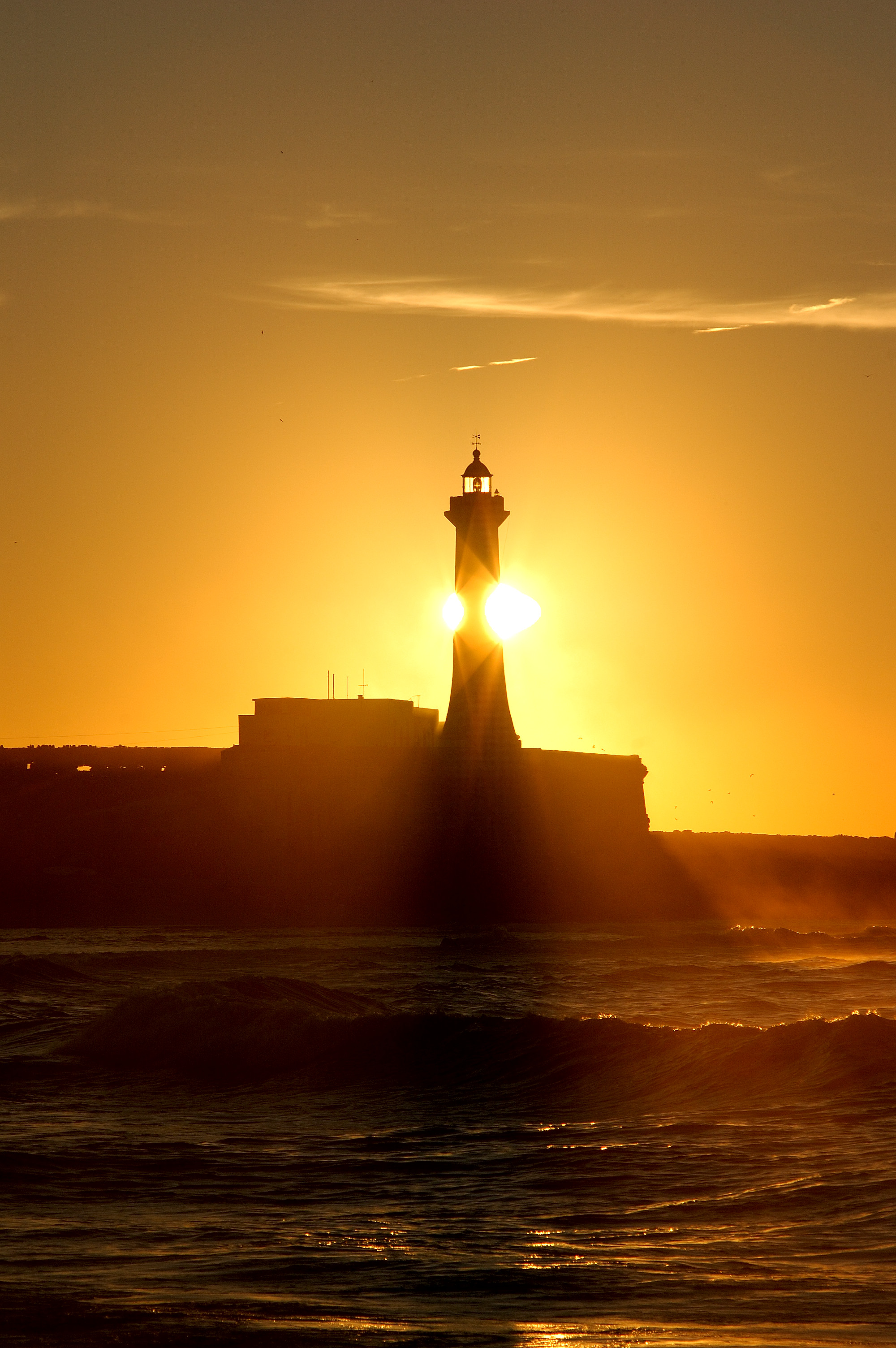 Sunset. Lighthouse of Rabat, Morocco.